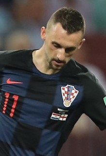 Marcelo Brozović